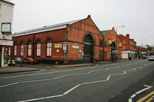 Former Sherwood Bus Depot